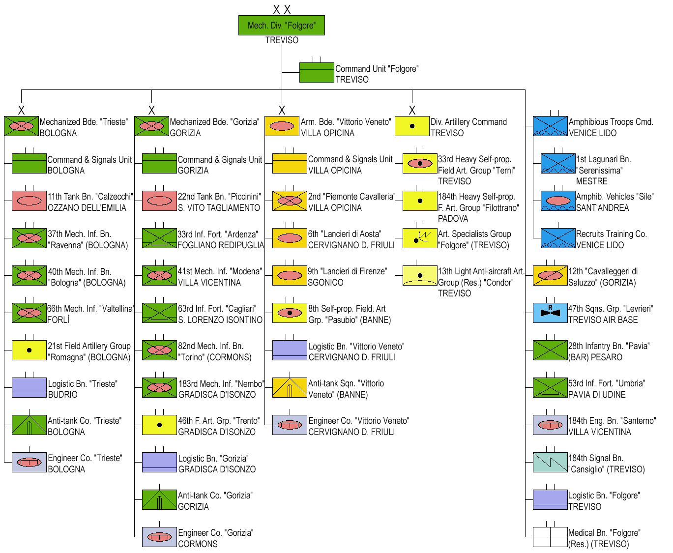 Structure of the Italian Army's Mechanized Division "Folgore" in 1977